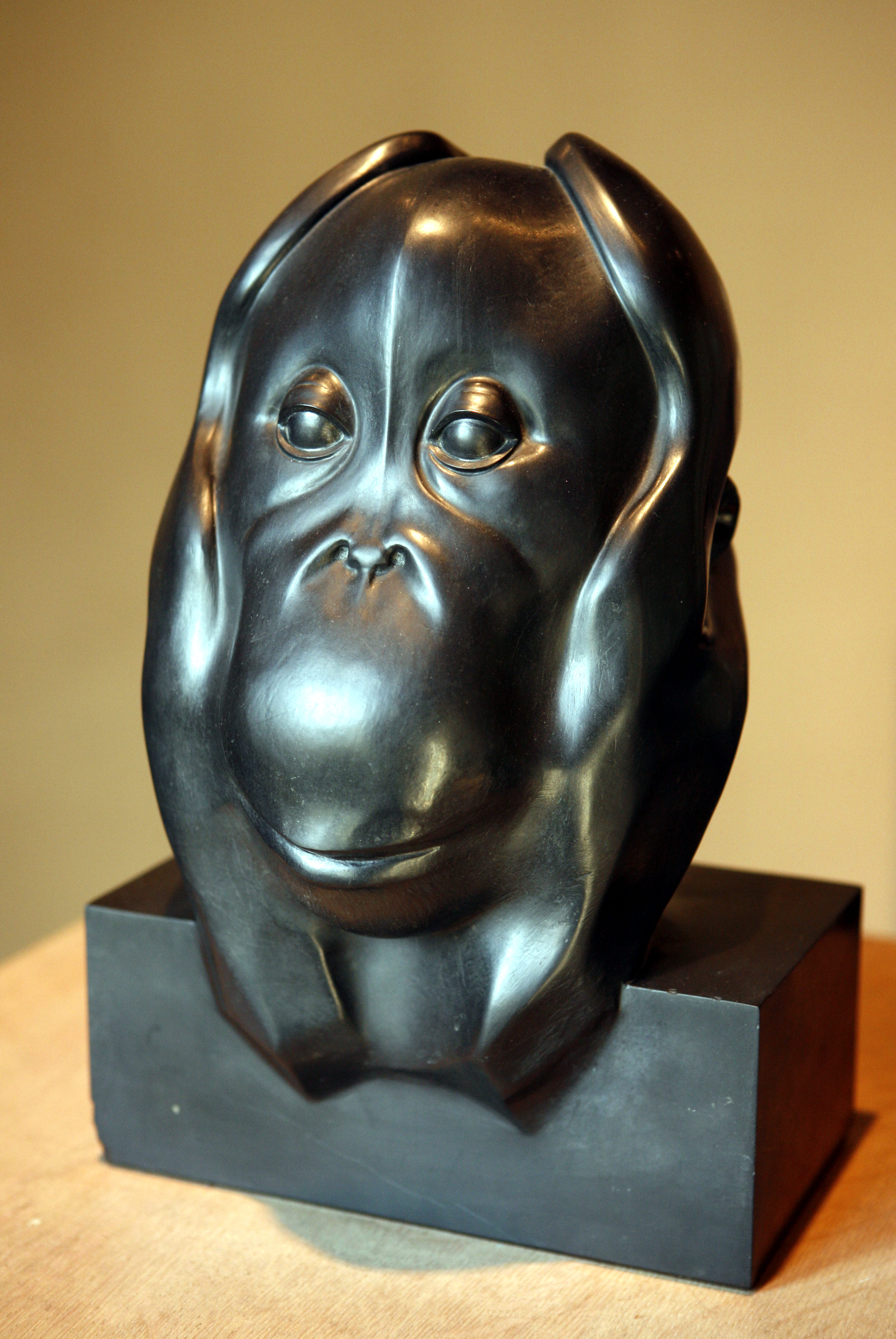 Sculpture by François Pompon, on display at Dijon Fine Art museum